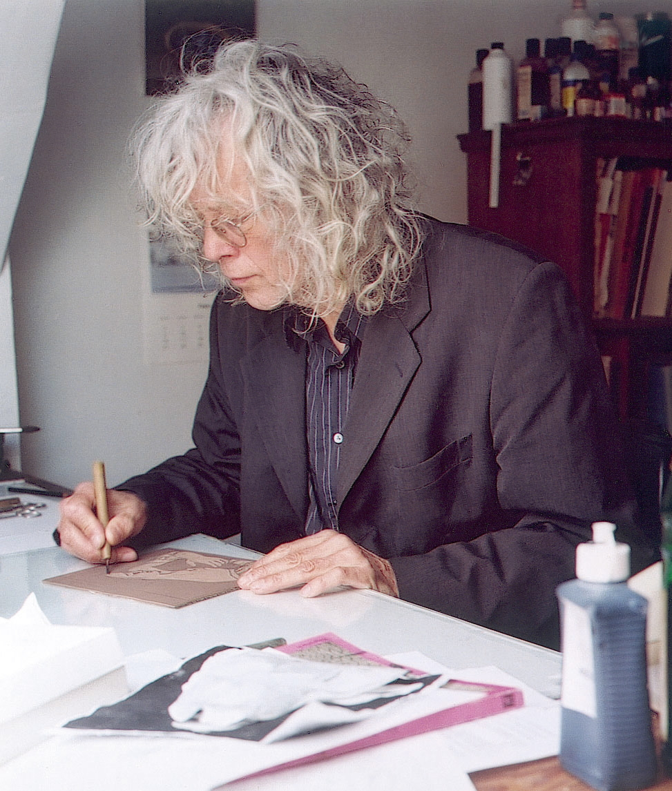 Portrait of the German illustrator, cartoonist and author of children's books and theatrical plays